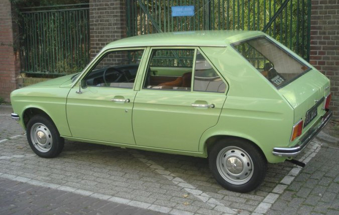 Peugeot 104, 1974